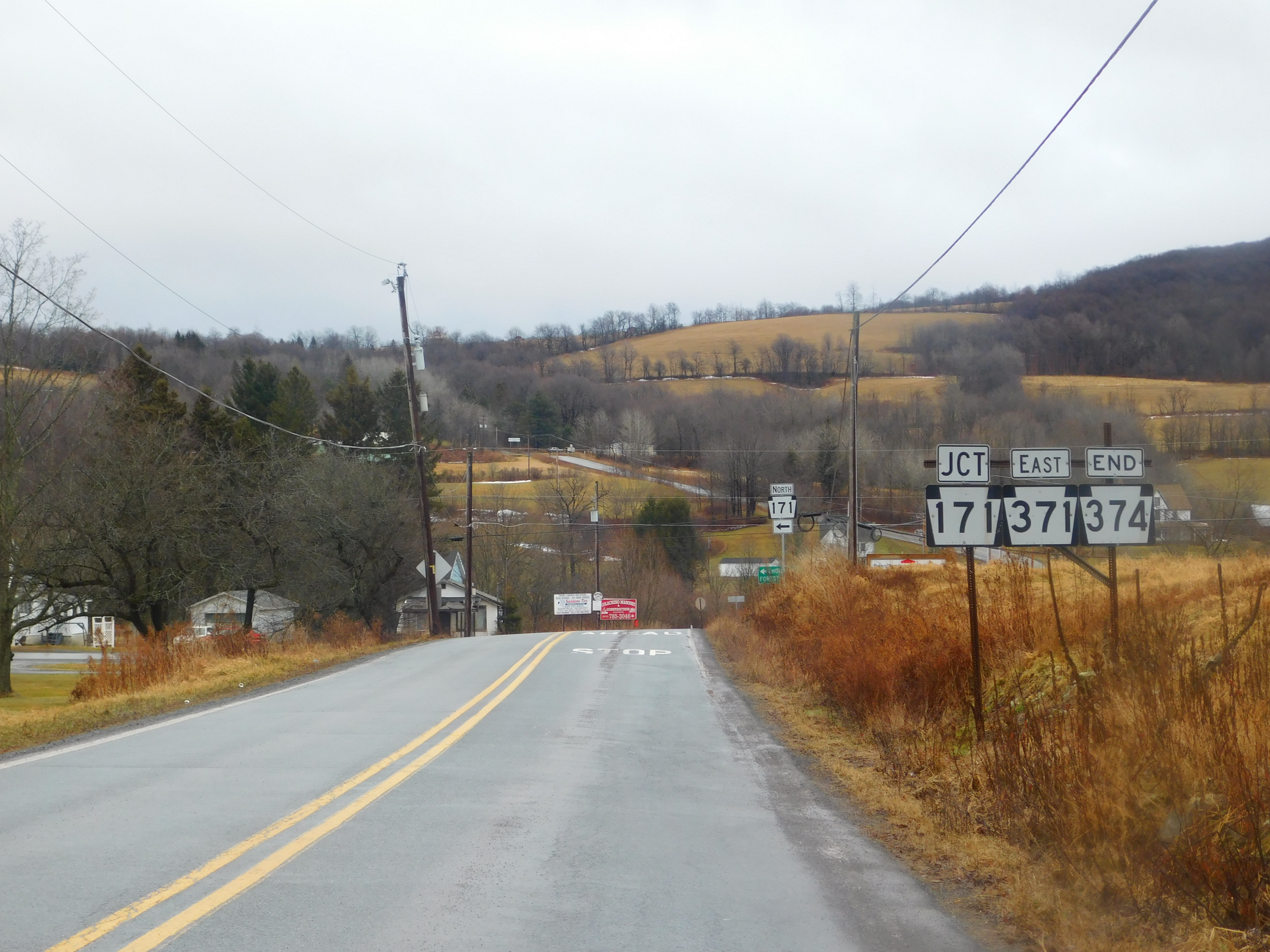 PA 374 approaching PA 371 in Herrick Centre, Pennsylvania.